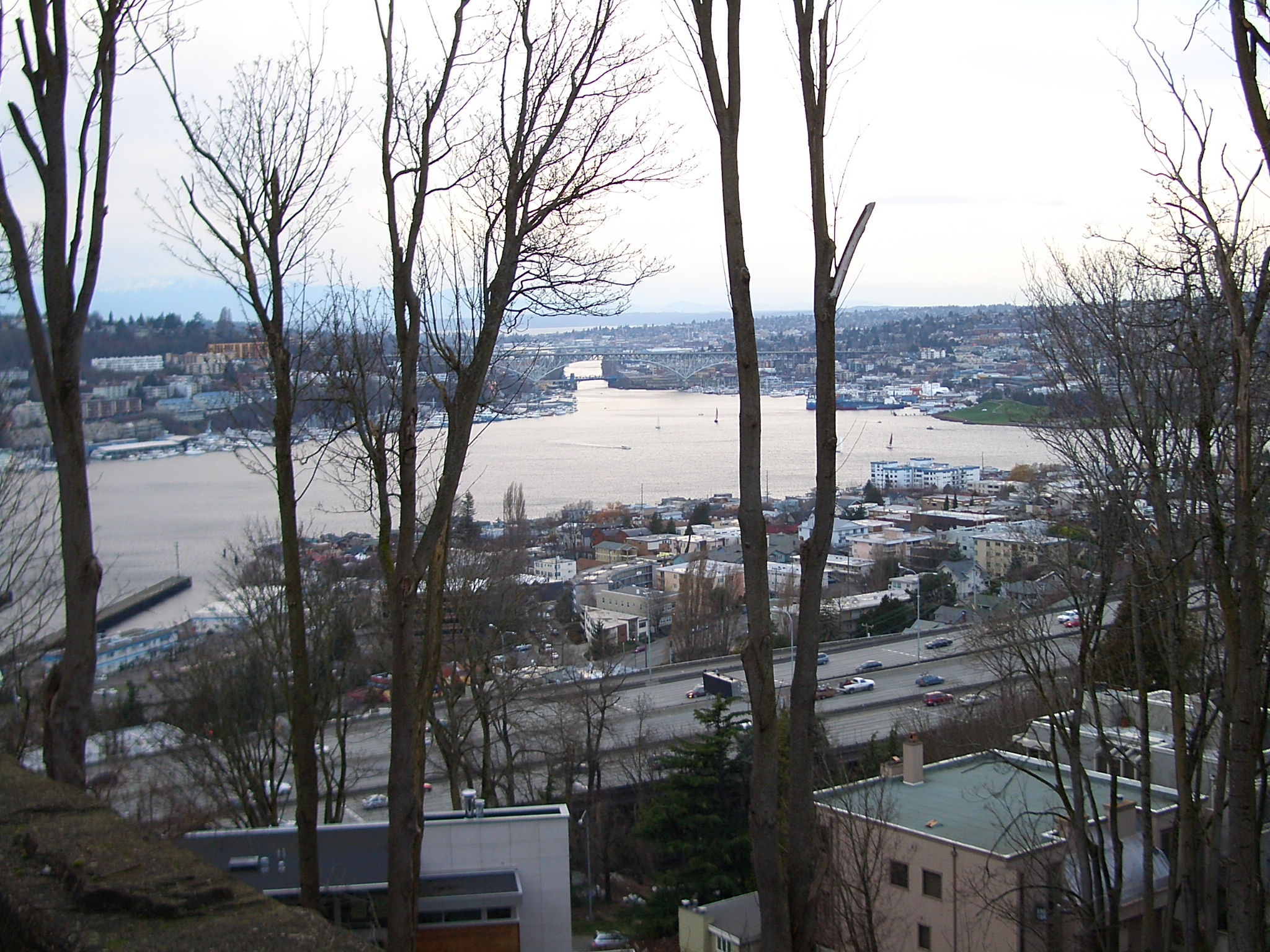 Lake Union seen from Capitol Hill (around St. Mark's Cathedral). In the background, Fremont Cut (part of Seattle Ship Canal) connects the lake with Puget Sound. Fremont and Gas Works Park are to the right of the canal, Queen Anne to the left; I-5 and Eastlake are in the forefront. The high Aurora Bridge and the lower Fremont Bridge span the canal.